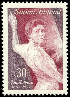 Postage stamp depicting the Finnish actress Ida Aalberg